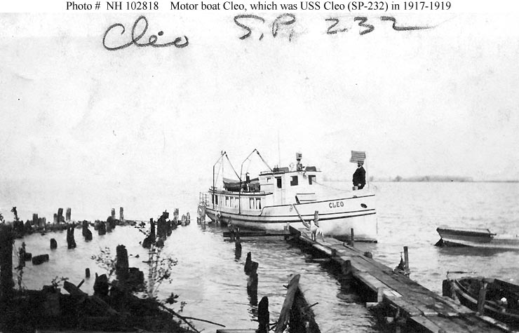 The motorboat Cleo in a Great Lakes port prior to her United States Navy service as patrol vessel USS Cleo (SP-232)